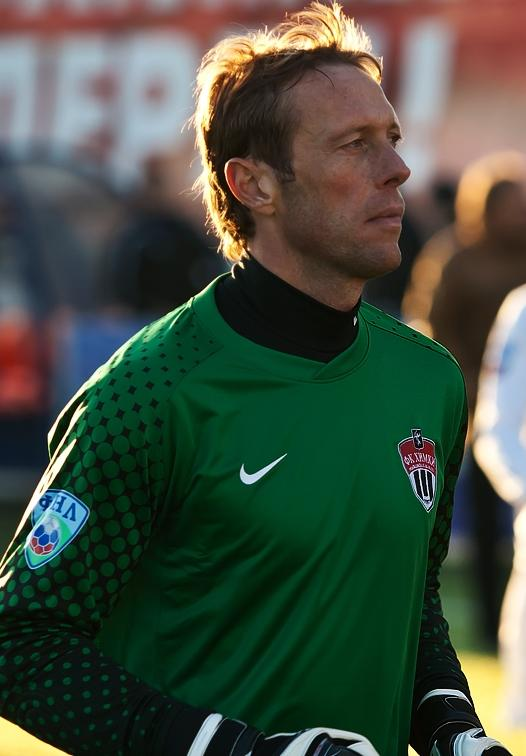 Roman Berezovsky with FC Khimki.